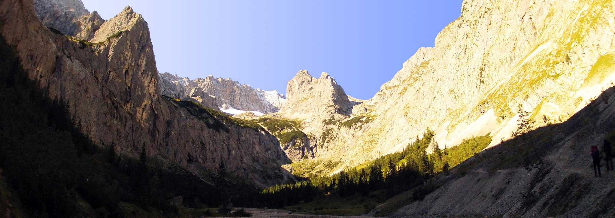 Panorama of the Höllental (Hell's Valley)